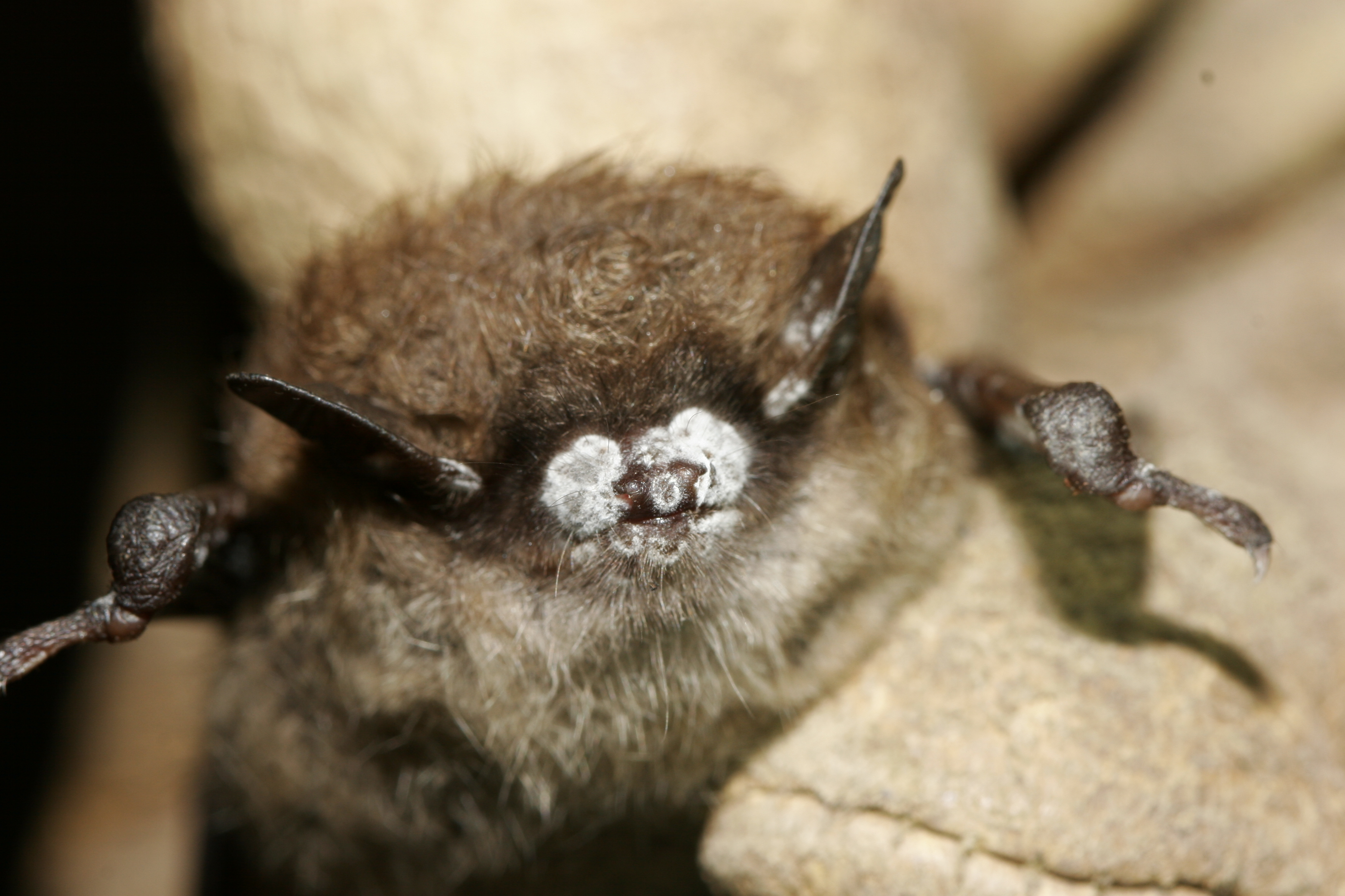 Credit: Photo courtesy Ryan von Linden/New York Department of Environmental Conservation Image size: 3504p (49 in.) W x2336p (32 in.) H, 72 ppi, 2.2 MB